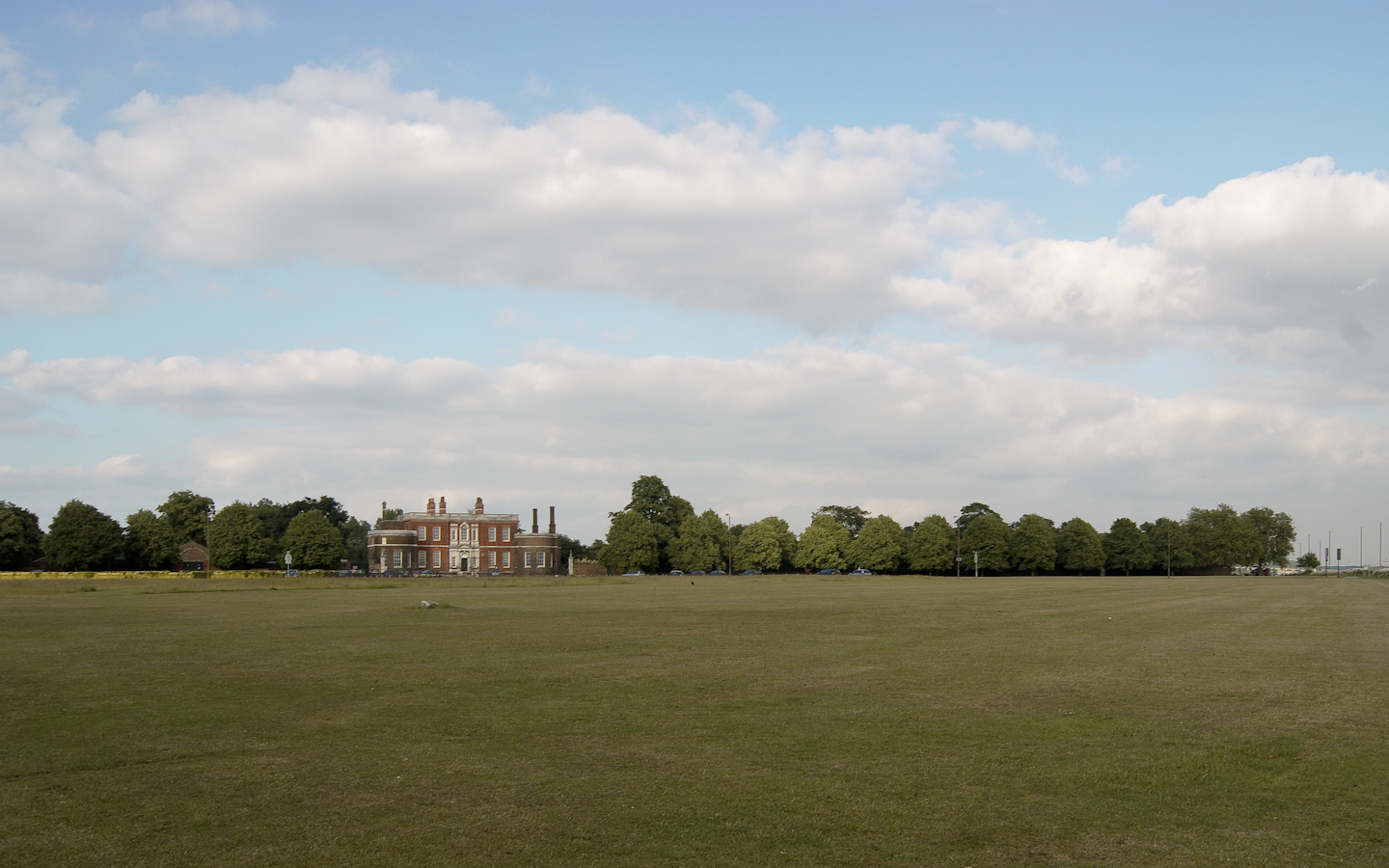 Blackheath (London) & Ranger's House